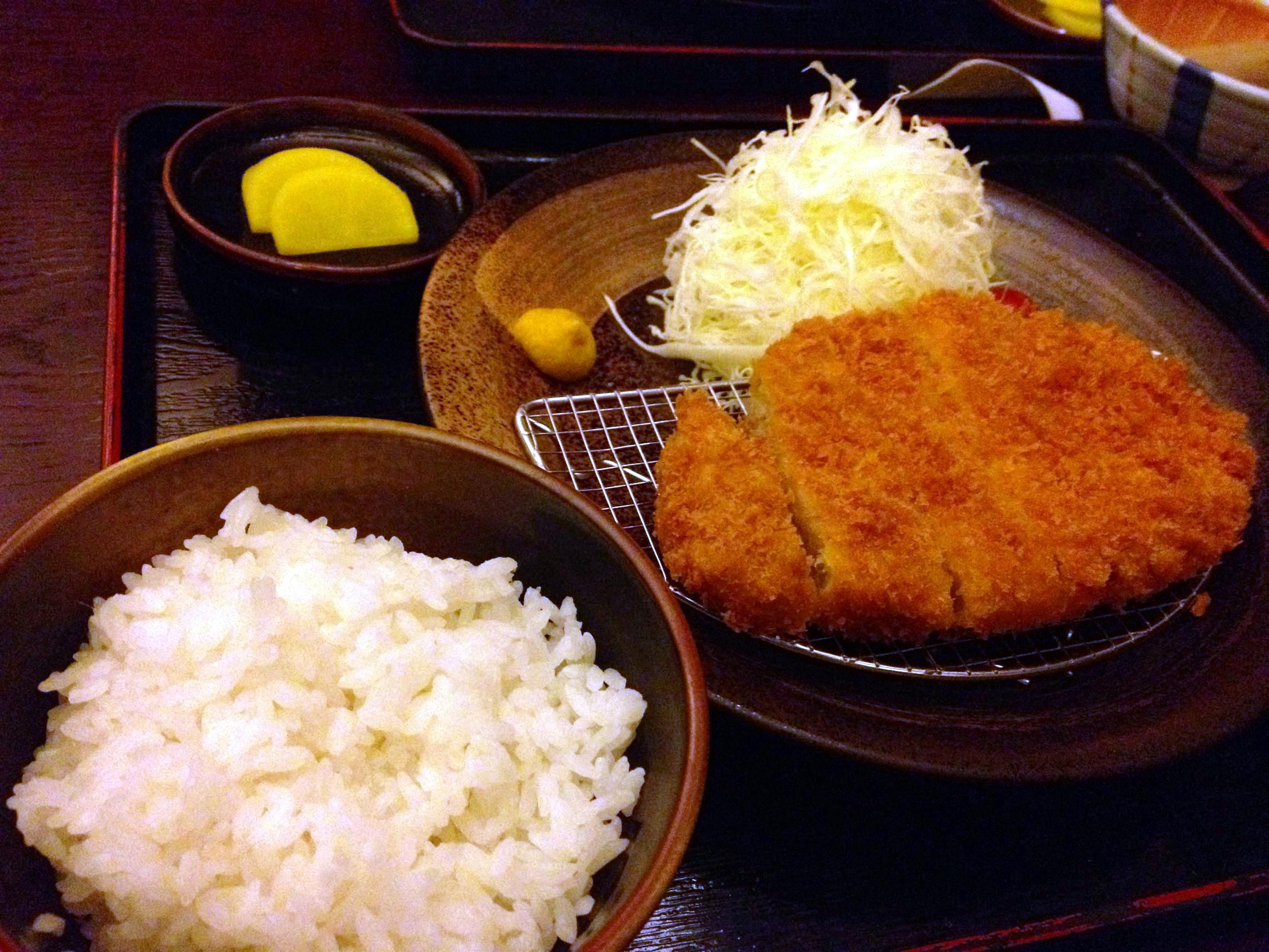 Tonkatsu served with shredded cabbage, boiled rice and miso soup from Tonkichi restaurant in Singapore